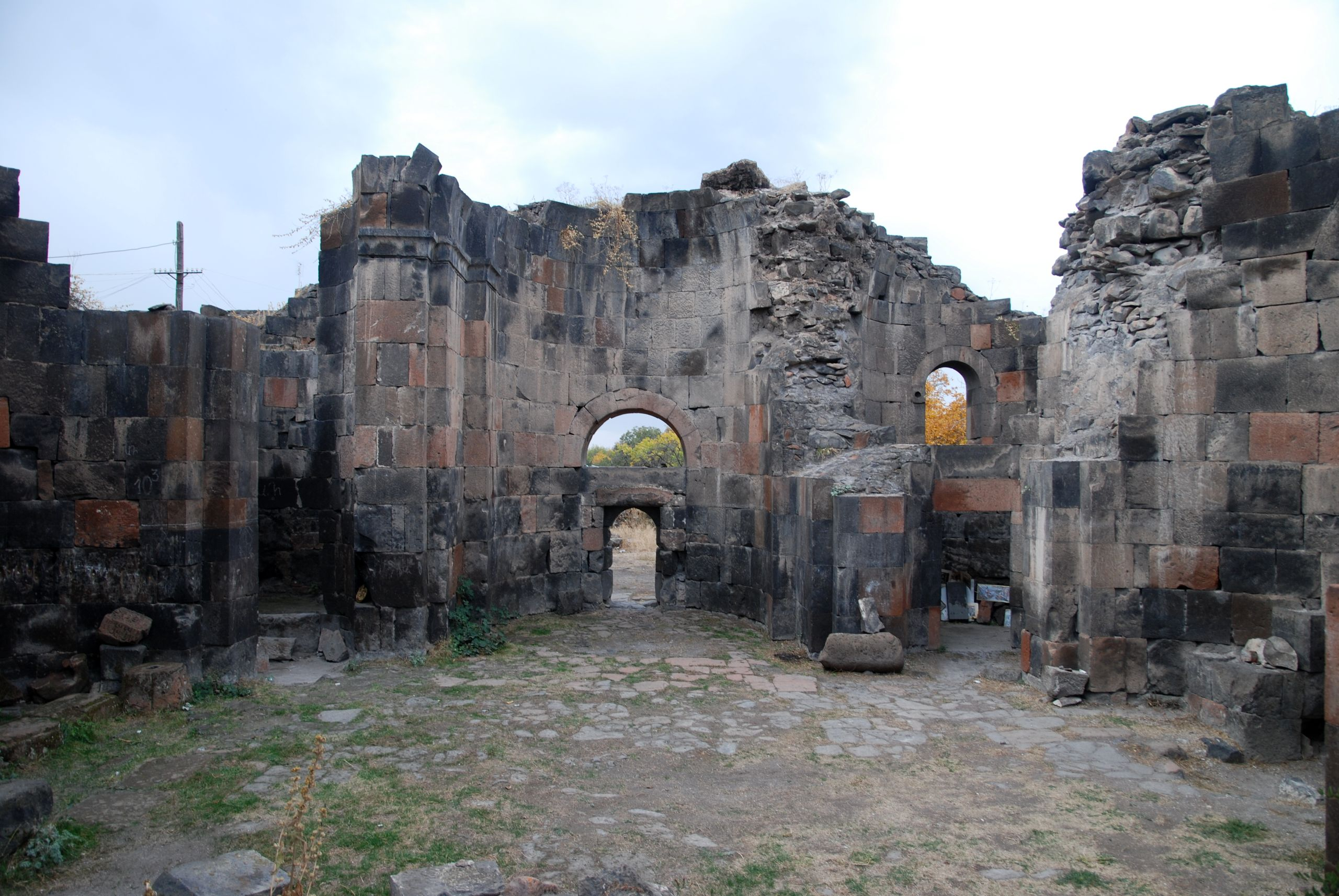 Avan, cathedral west wall from inside